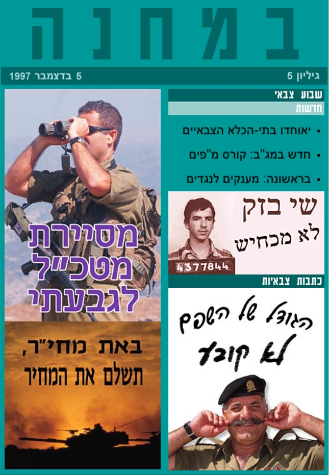 Bamahane issue no.5, front page.